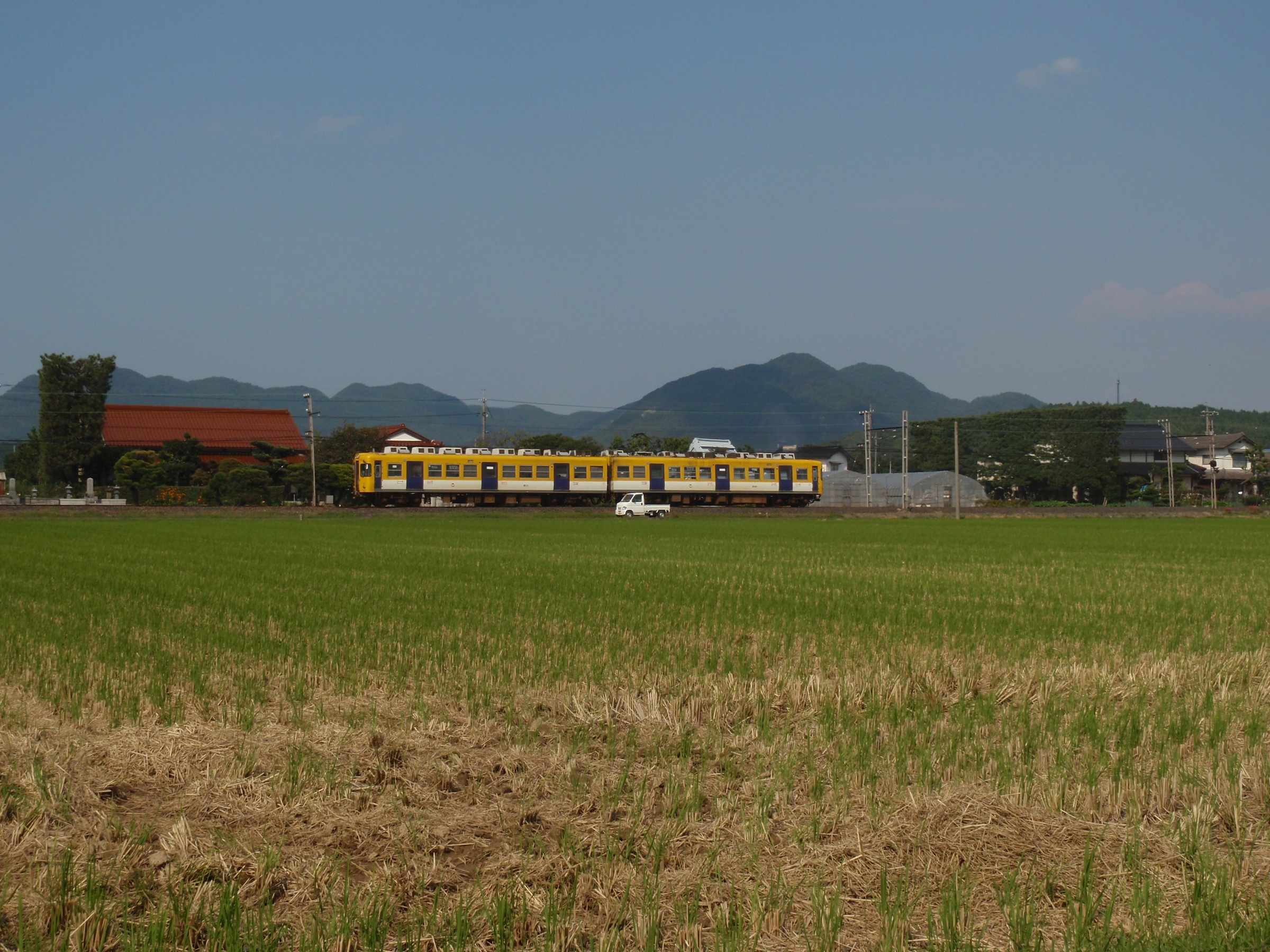 EMU Type 2100 No.2101 and 2111 by Ichibata Electric Railway on Kitamatsue Line.